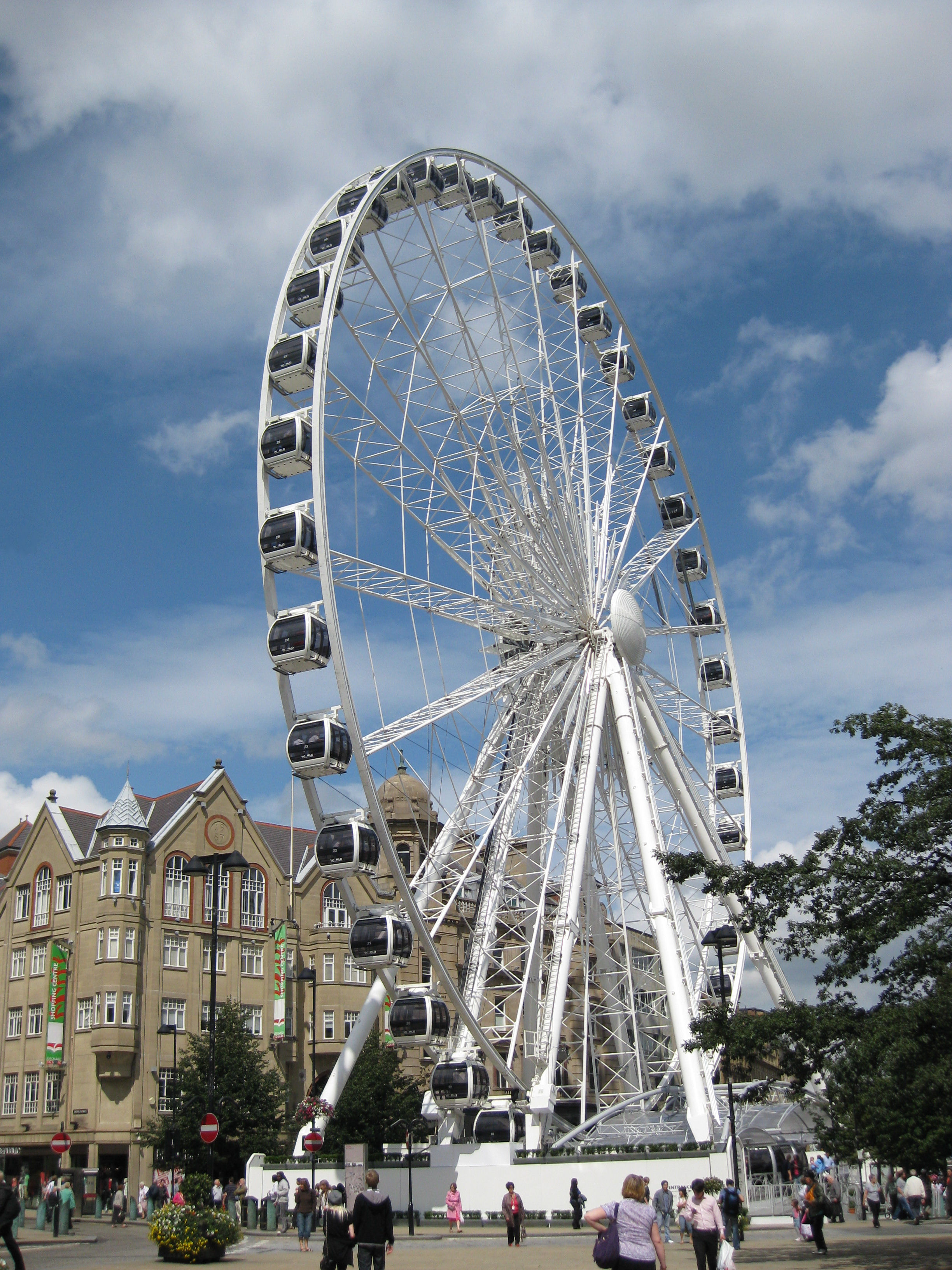 Wheel of Sheffield, Fargate, Sheffield